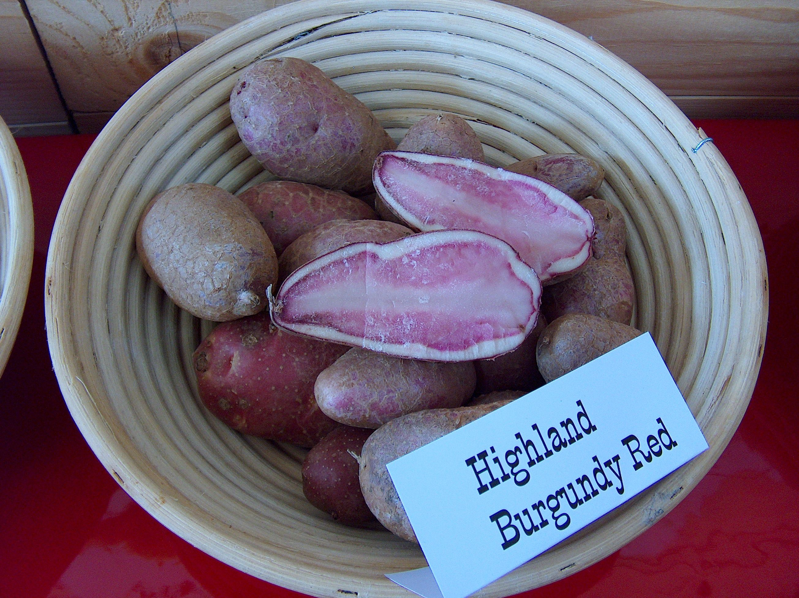 Highland Burgundy Red potato